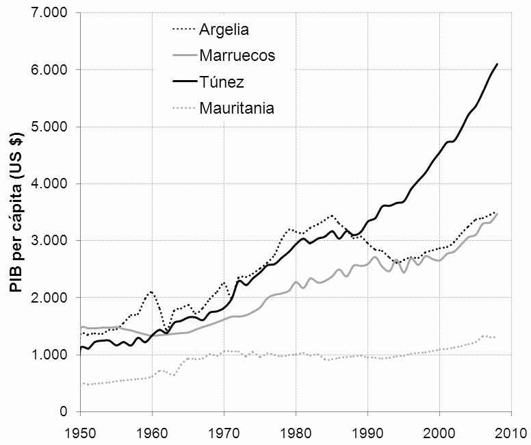 Evolution of "GDP per capita" in North Africa (1950-2010)